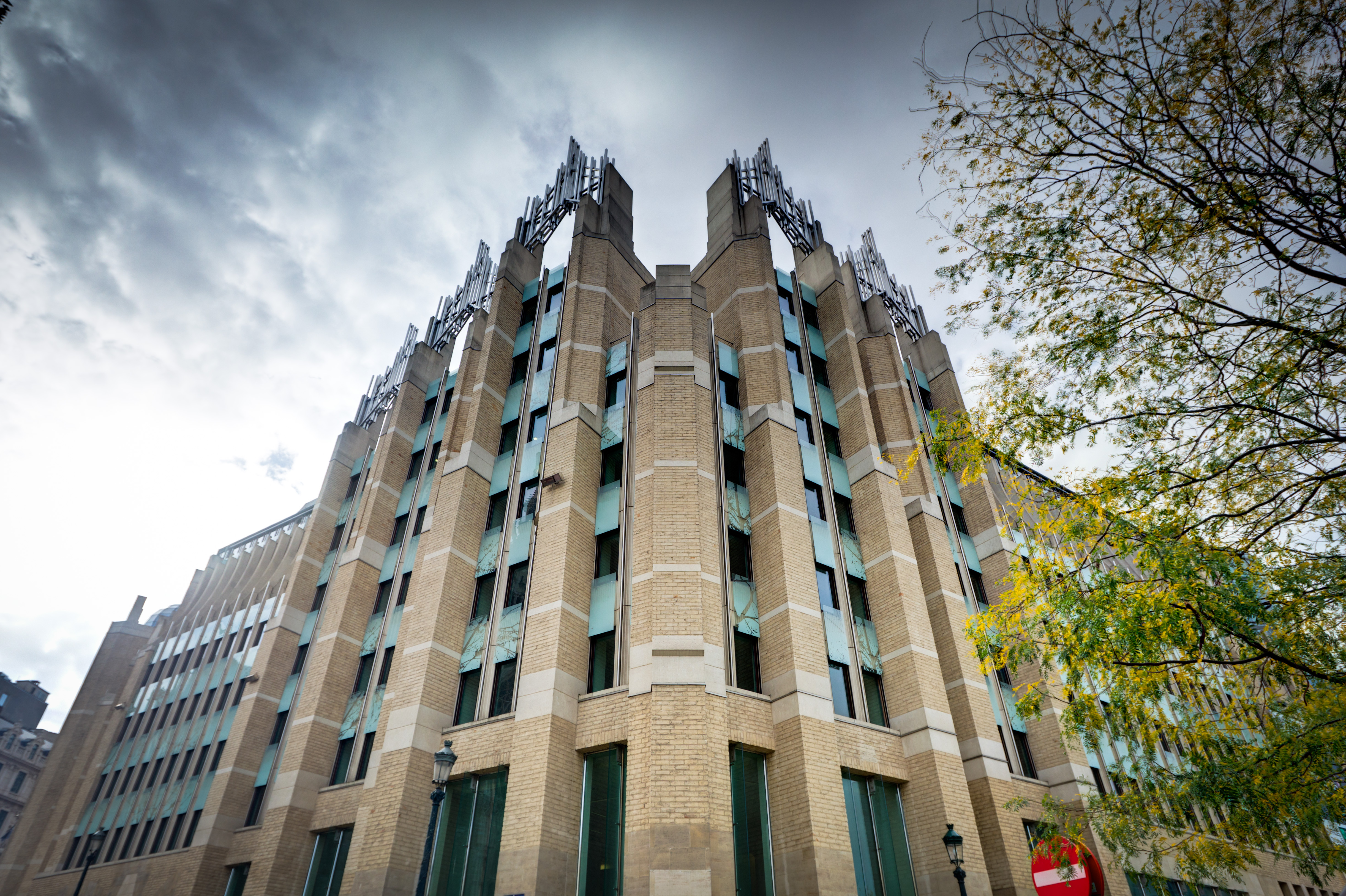 EDF Luminus main office in Brussels